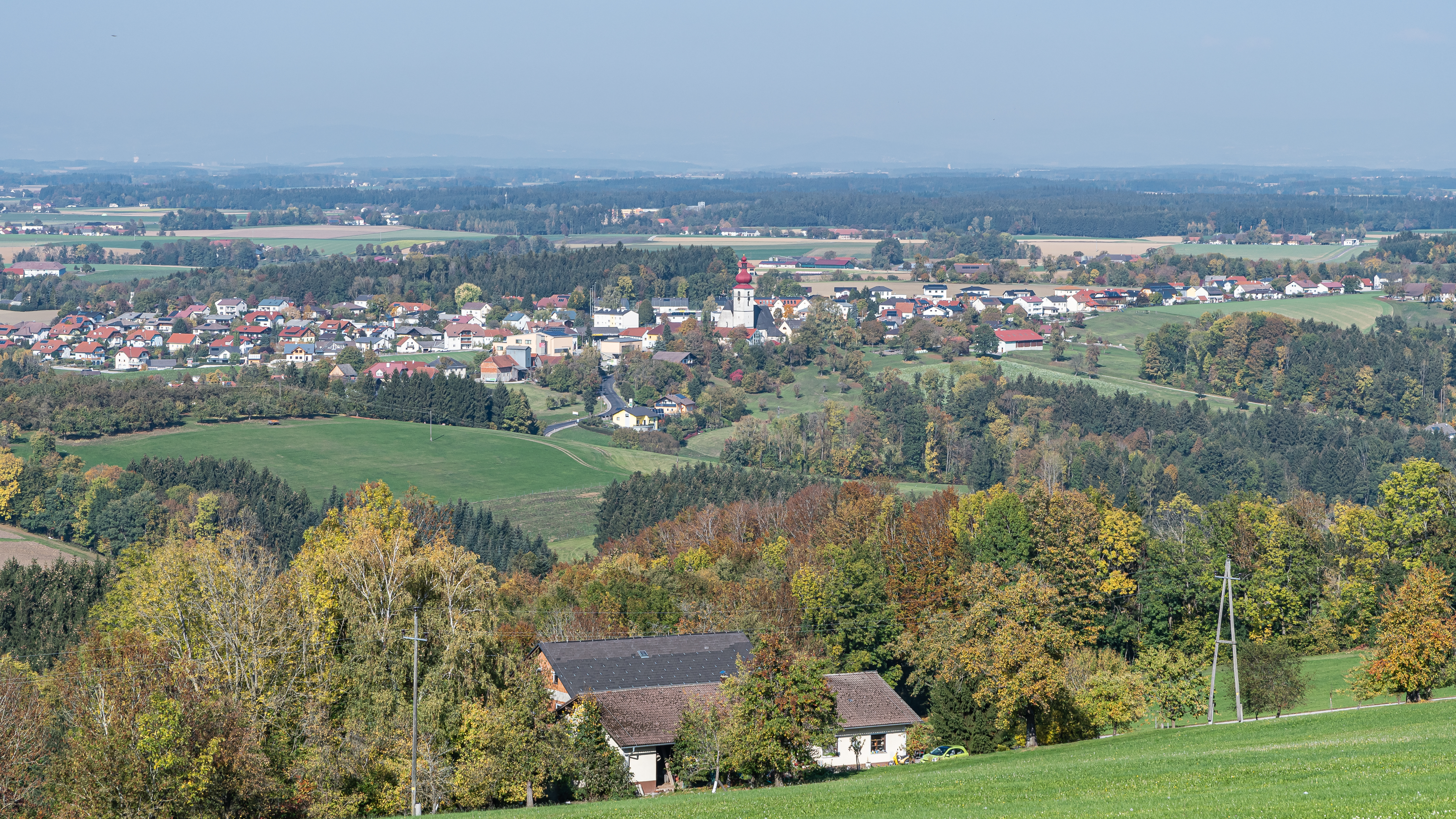 Waldneukirchen is a community in Upper Austria in Bezirk Steyr-Land. Waldneukirchen